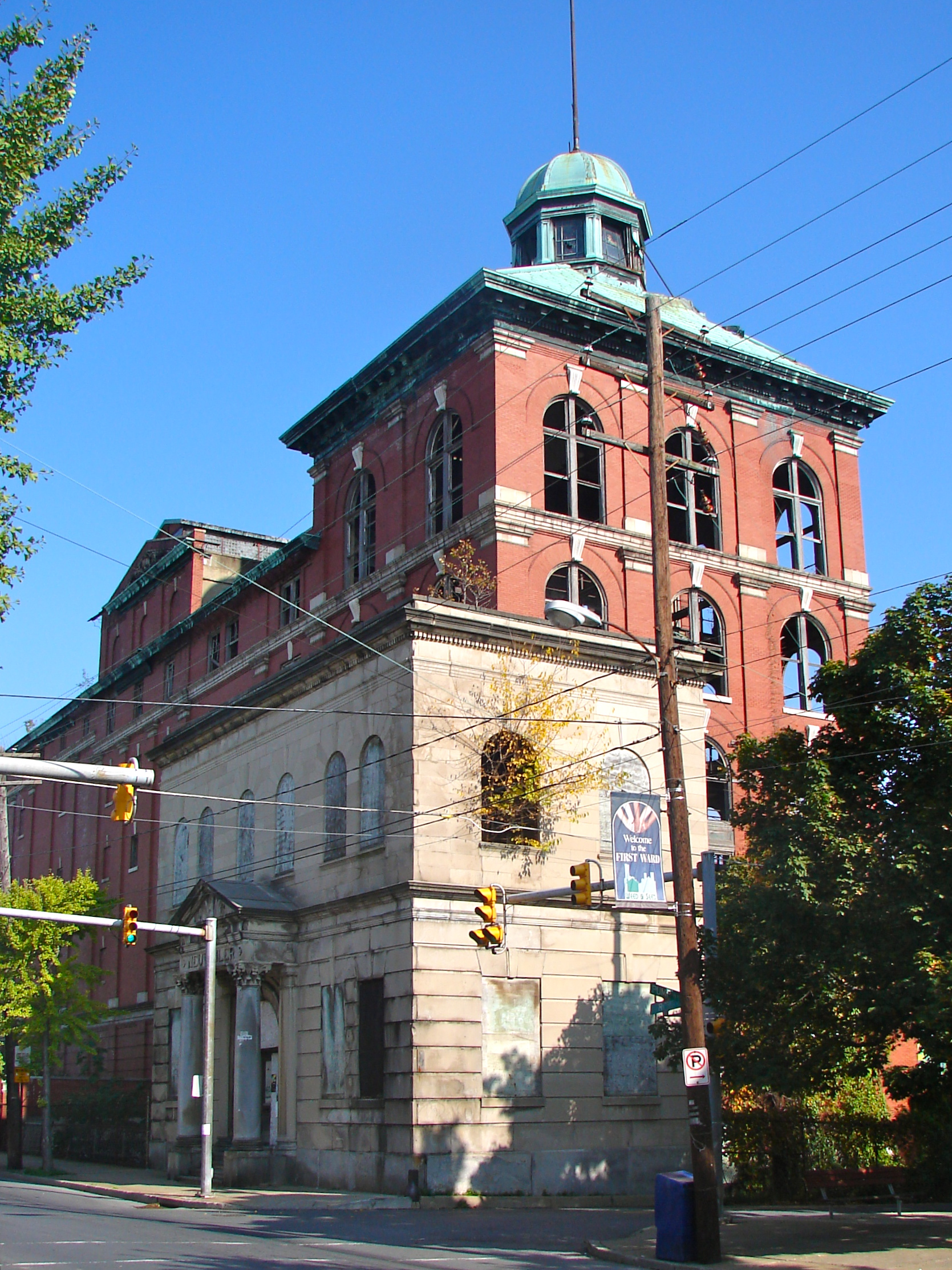 Neuweiler Brewery on the NRHP since June 27, 1980. At 401 North Front Street, Allentown, Pennsylvania. A very long, low building. This photo just shows the 2 most prominent parts.